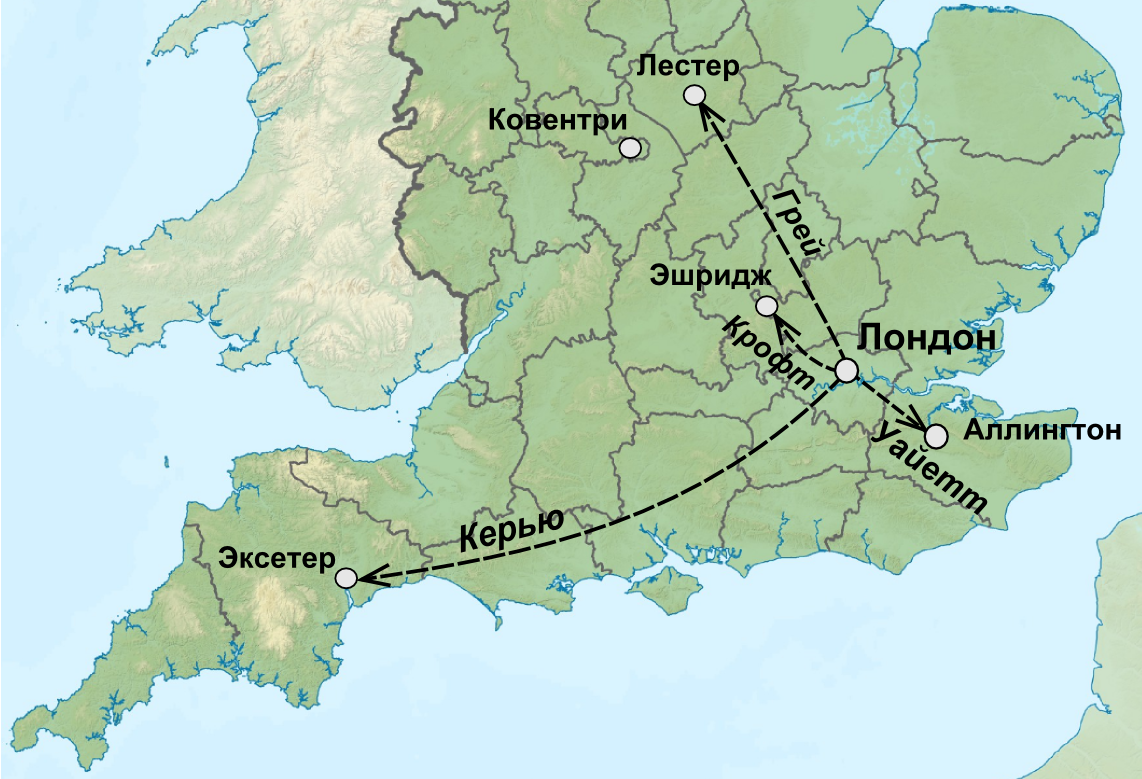 Beginning of Wyatt's Rebellion, Jan. 18-25 1554: four ringleaders depart to their intended areas of action